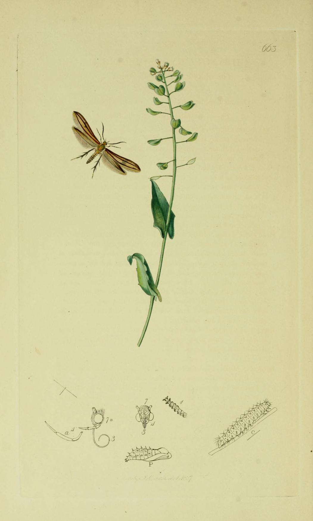 An illustration from British Entomology by John Curtis. Lepidoptera: Chrysocorys scissella or Schreckensteinia festaliella